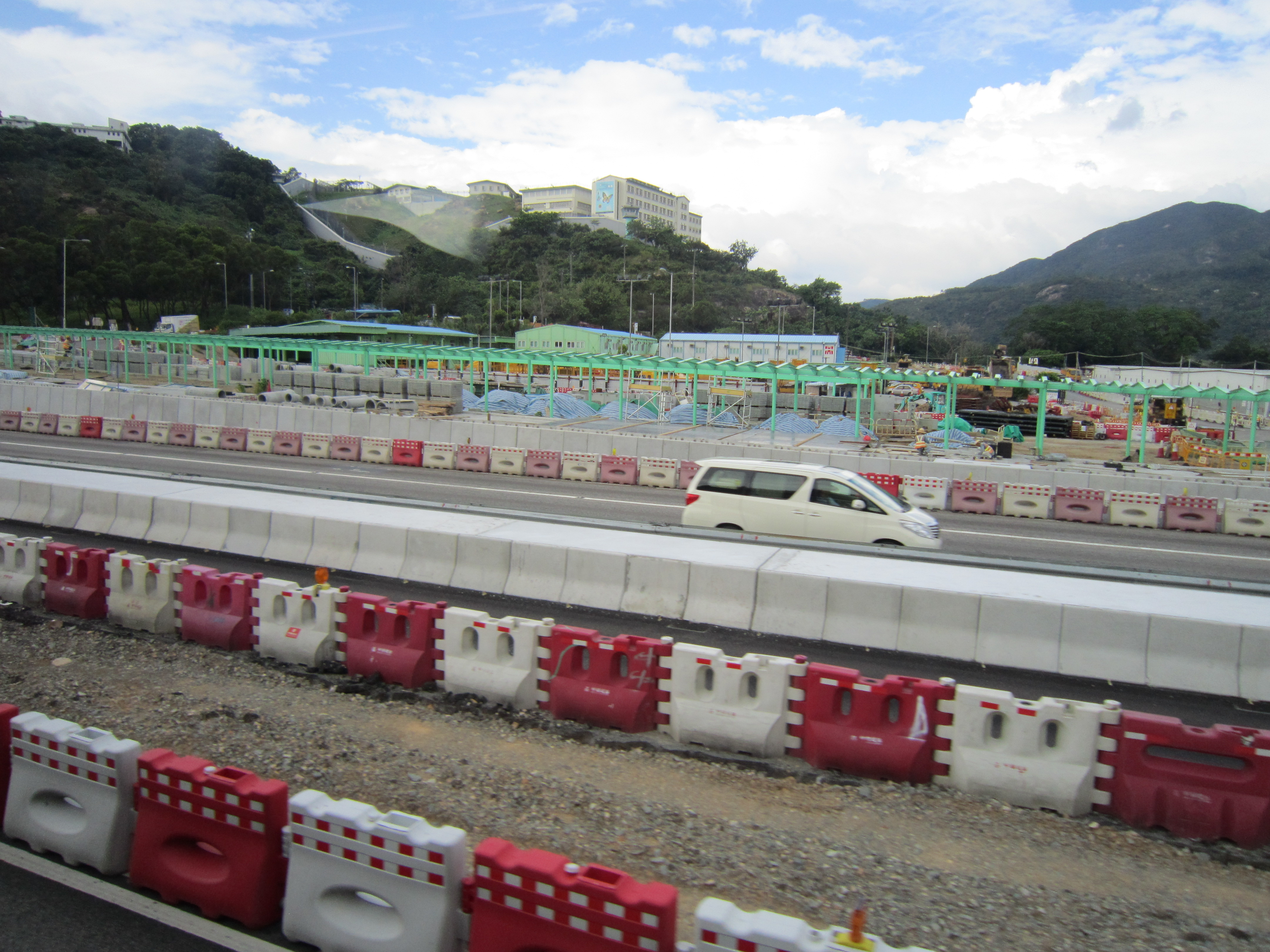 Tuen Mun Road Bus Exchange Station under construction